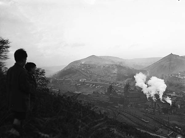 Teitl Cymraeg/Welsh title: Glofa Elliot, Elliot's Town, Cwm Rhymni, gyda Phillip's Town yn y pellter Nodyn/Note: Two boys looking down over Elliots Colliery. Cyfrwng/Medium: Negydd ffilm / Film negative Cyfeiriad/Reference: (gch02396) Rhif cofnod / Record no.: 3368313 Rhagor o wybodaeth am gasgliad Geoff Charles yn Llyfrgell Genedlaethol Cymru More information about the Geoff Charles Collection at the National Library of Wales Mae ffotograffau Geoff Charles hefyd yn rhan o Broject Europeana Libraries Geoff Charles' photographs also form part of the Europeana Libraries Project